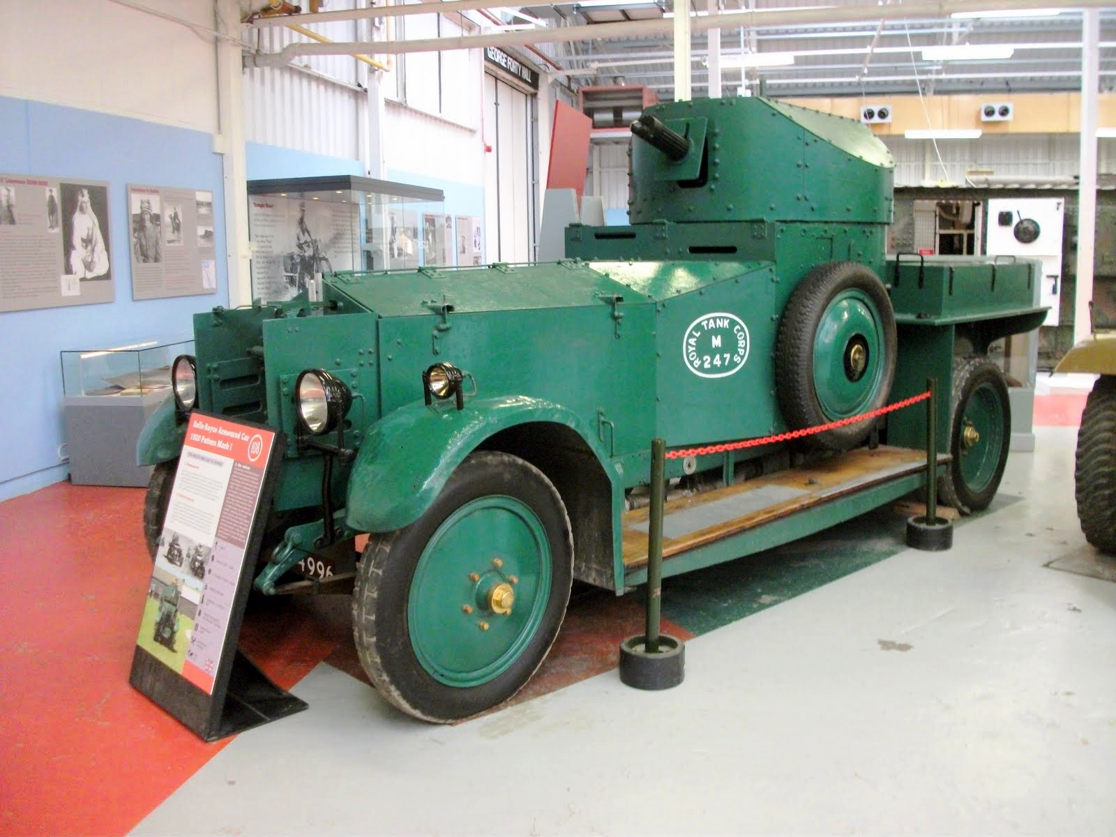 British Rolls Royce 1920 Mk1 Armoured Car in a British military museum.